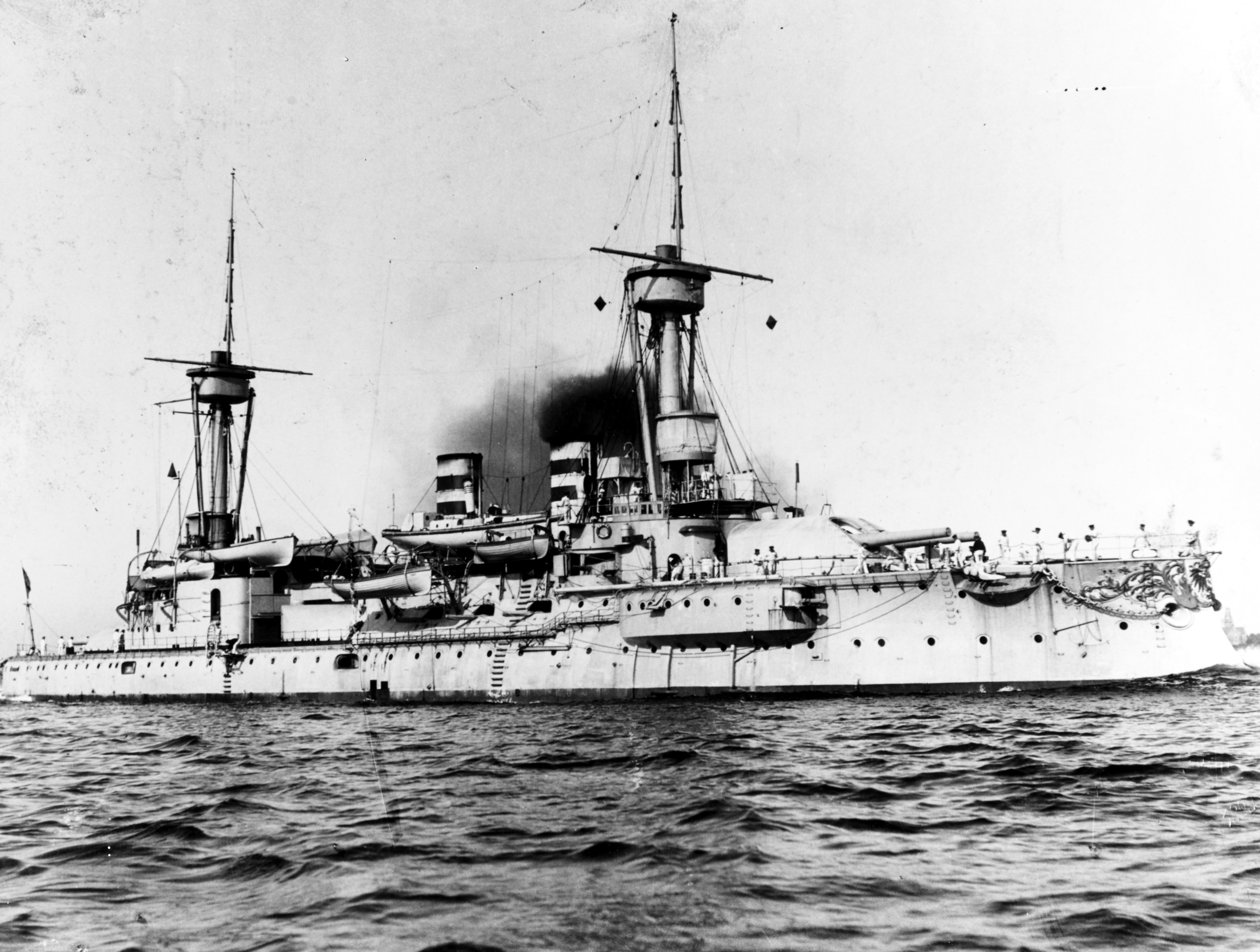 Title: WORTH (German battleship, 1892-1919) Caption: Photo by Arthur Renard, Kiel, 1899.